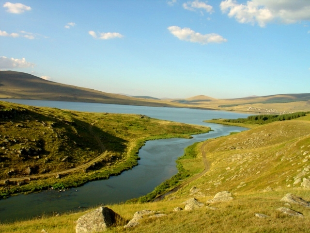 Paravani River near Sagamo Lake